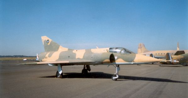 Image taken by Impi. Former South African Air Force Mirage IIICZ